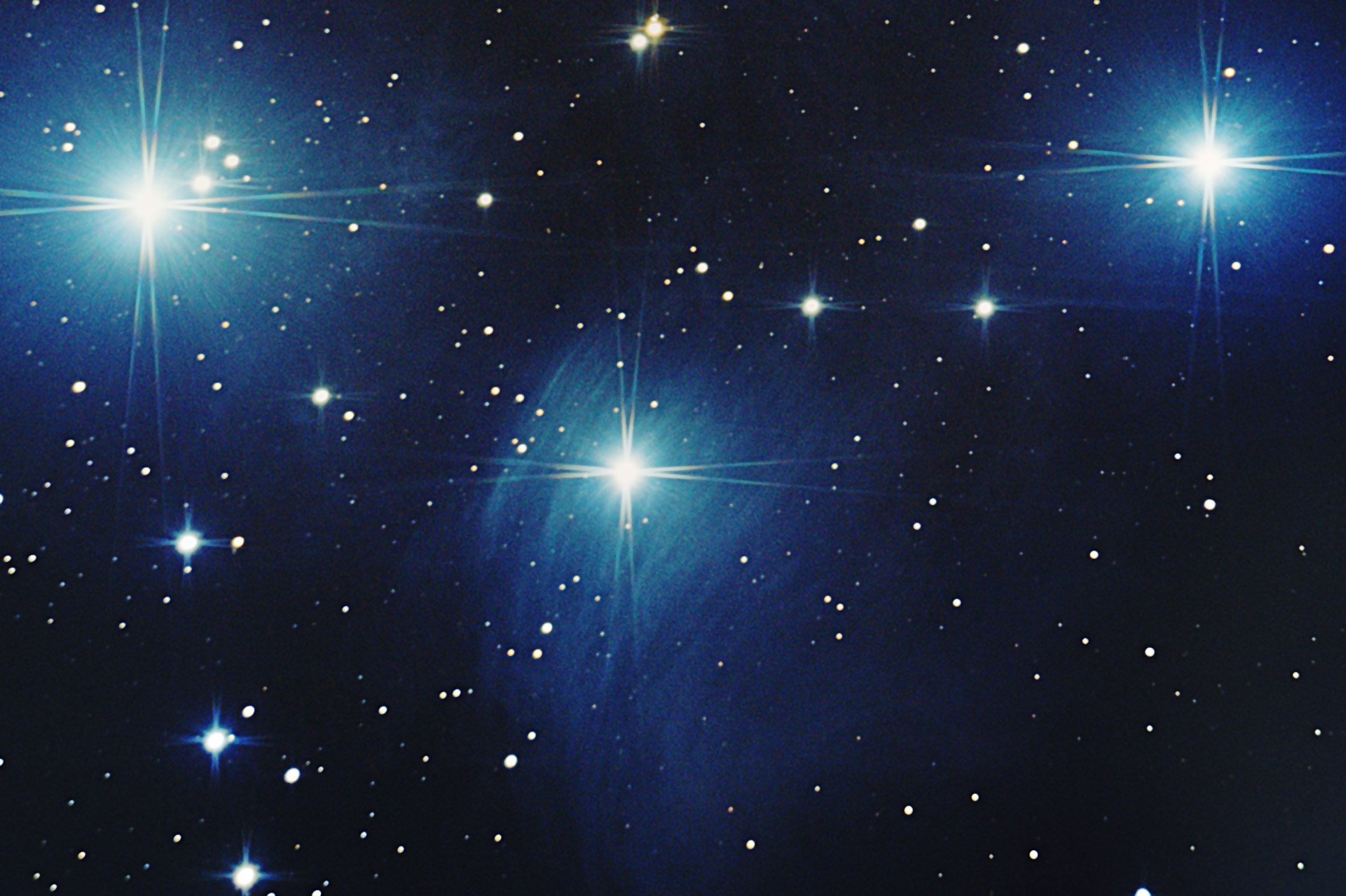 This is a photograph of Merope Nebula NGC1435 in M45 nebular complex taken with a 15cm f/5 Newtonian reflector and a DSLR camera by Karol Masztalerz.